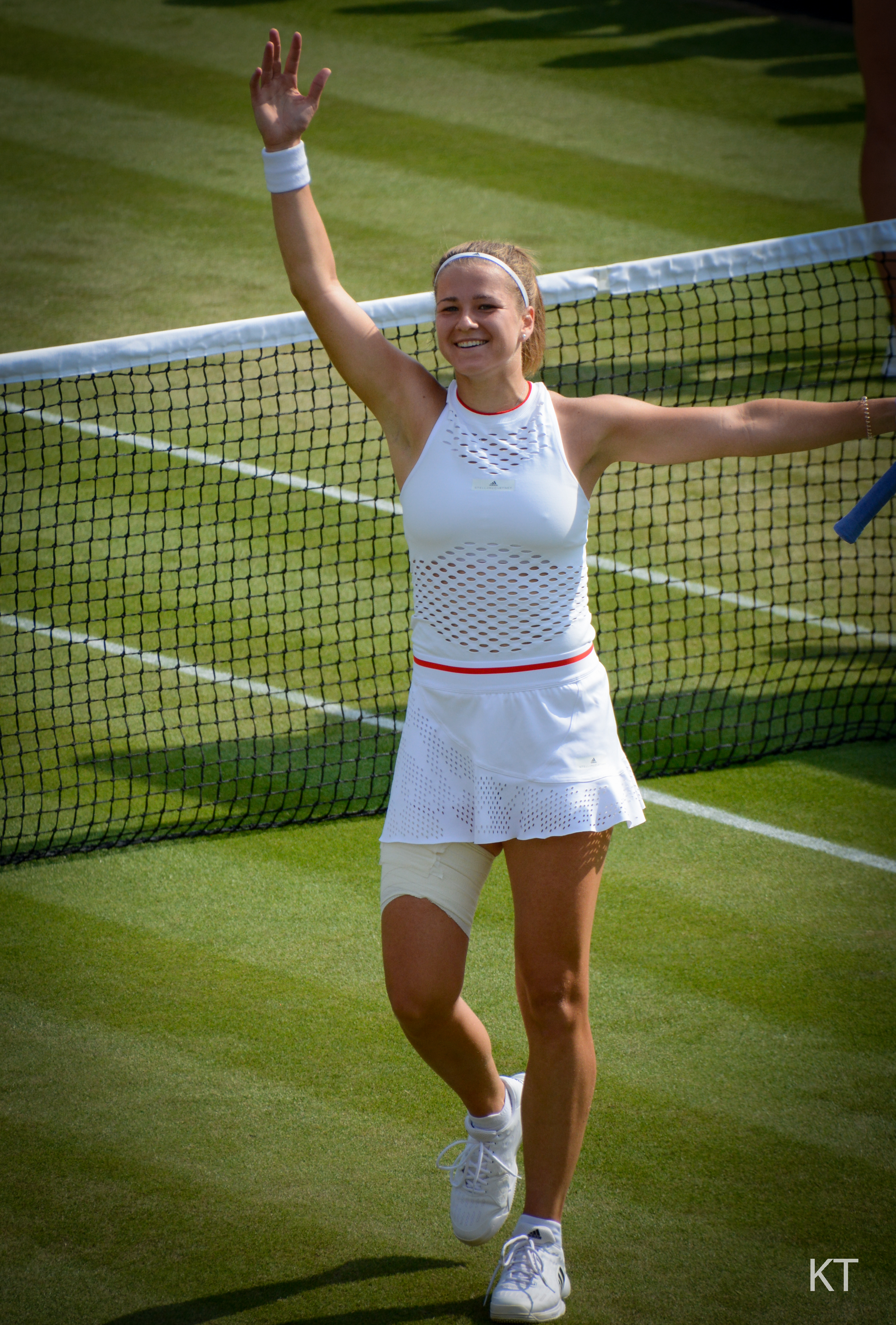 Karolina Muchova wins her 4th round match against Karolina Pliskova. Day 7 of Wimbledon 2019.